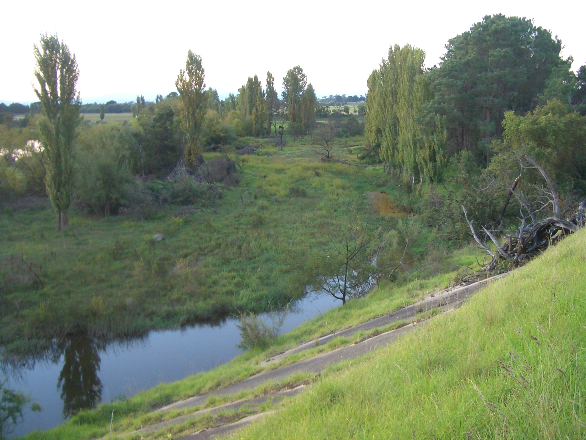 The Avon River, just SE of Stratford, in Gippsland, Victoria, Australia